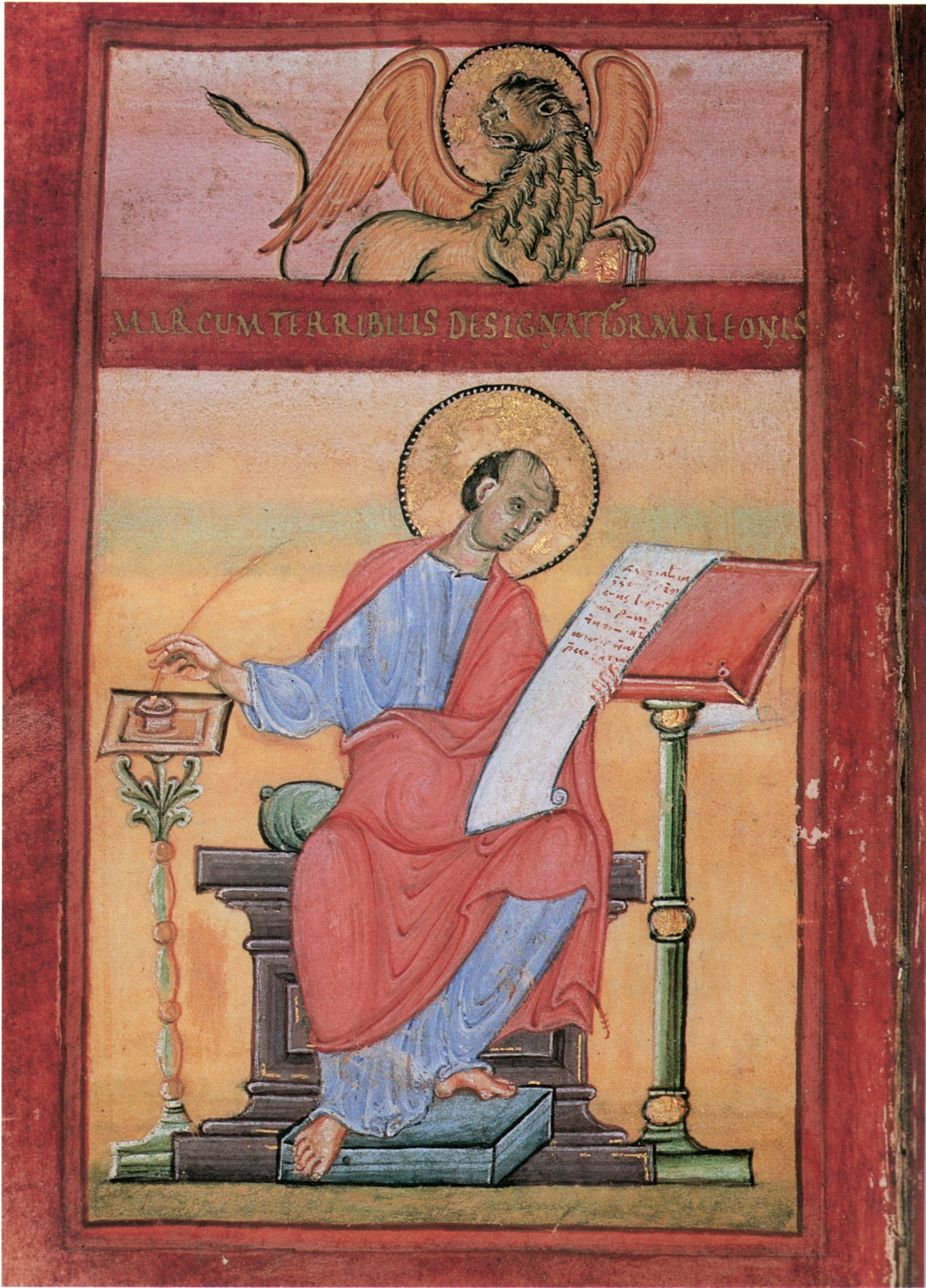 fol. 69v of Strahov Ms DF III 3. Markus